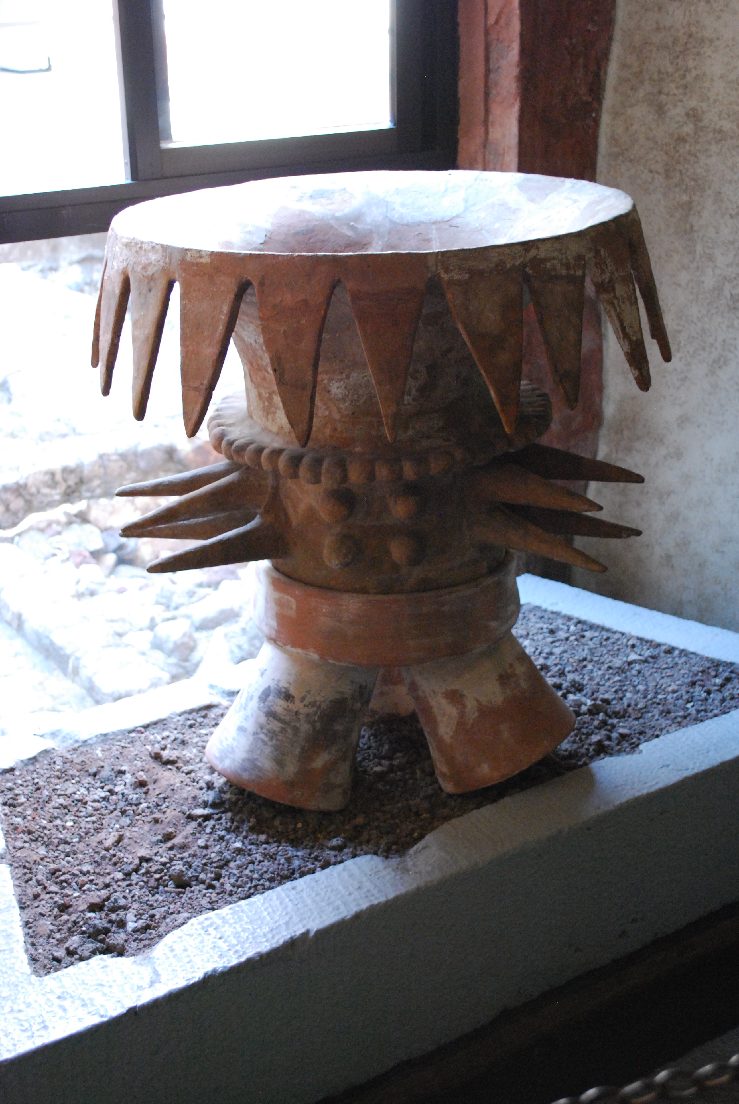 Tlahuica culture brazier from Teopanzolco, Morelos on display at the Palace of Cortes, Cuernavaca, Mexico